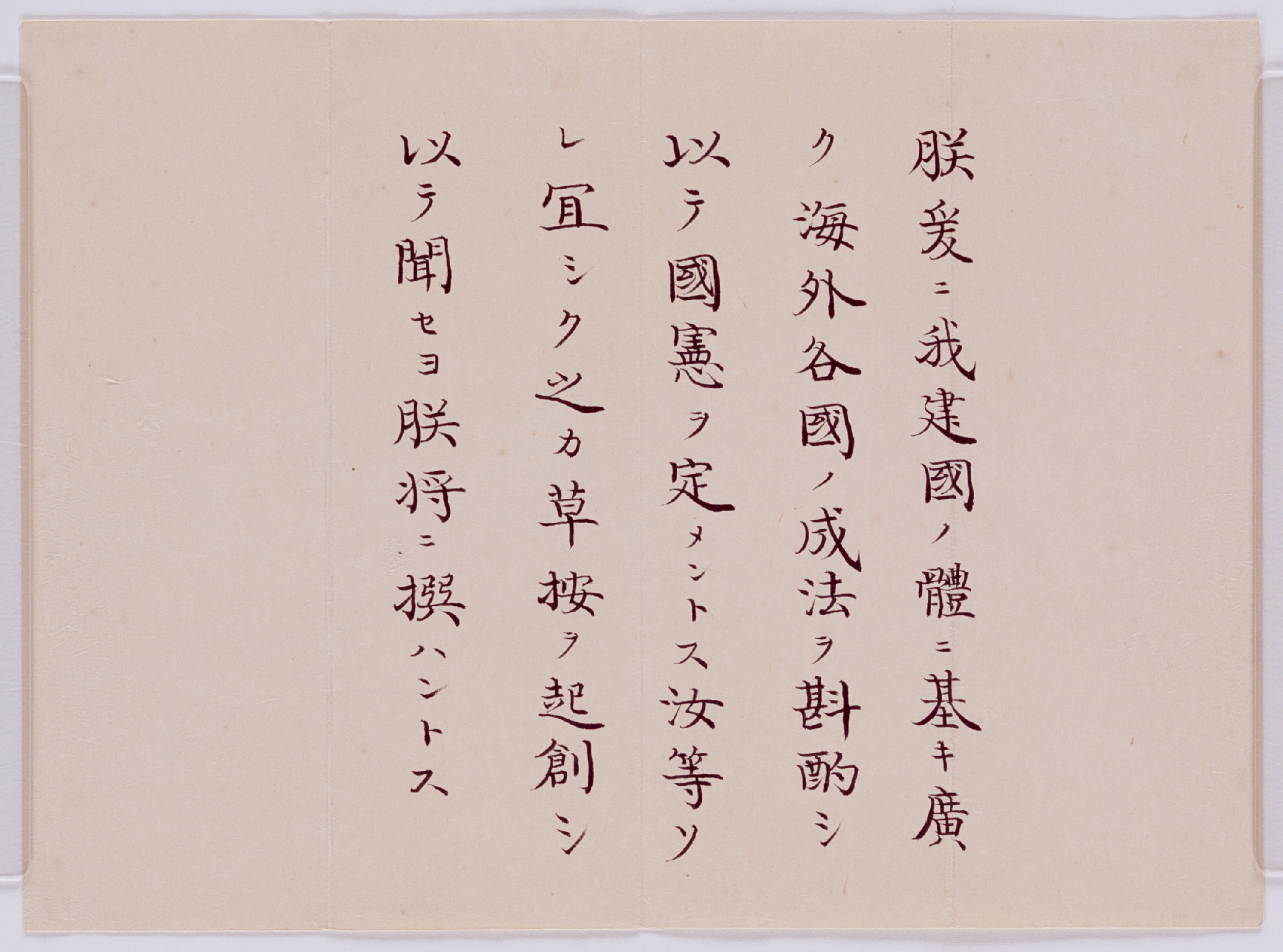 Imperial rescript for drafting of the constitution (page 1)